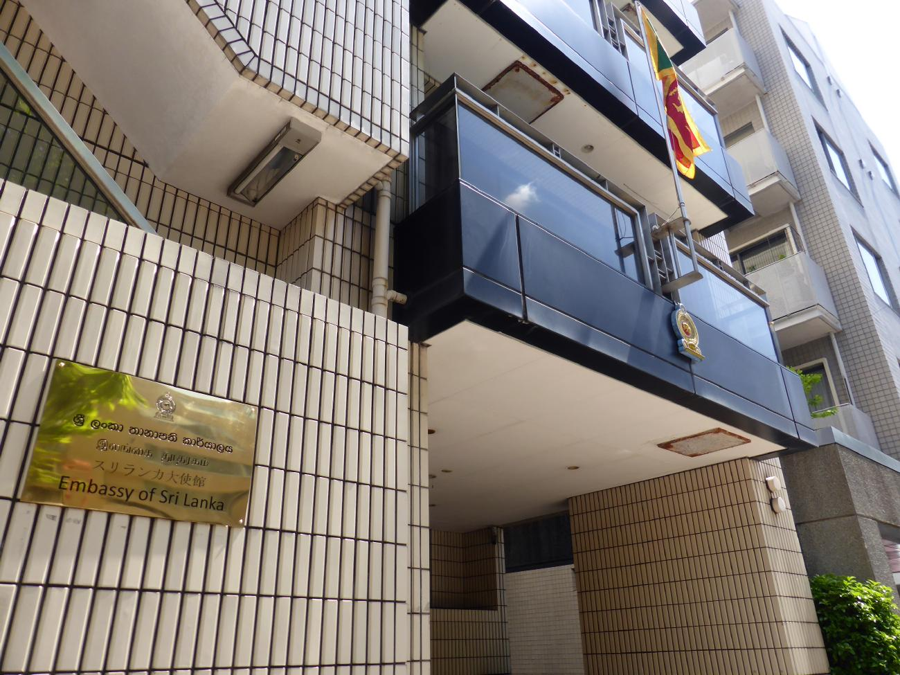 Sign and emblem on the Embassy of Sri Lanka in Tokyo, Japan